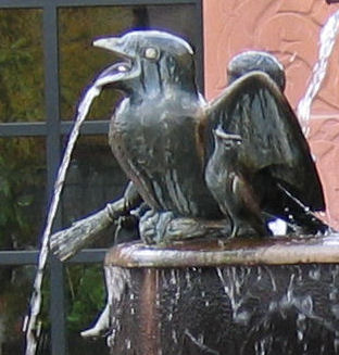 view of Enkenbach, Germany